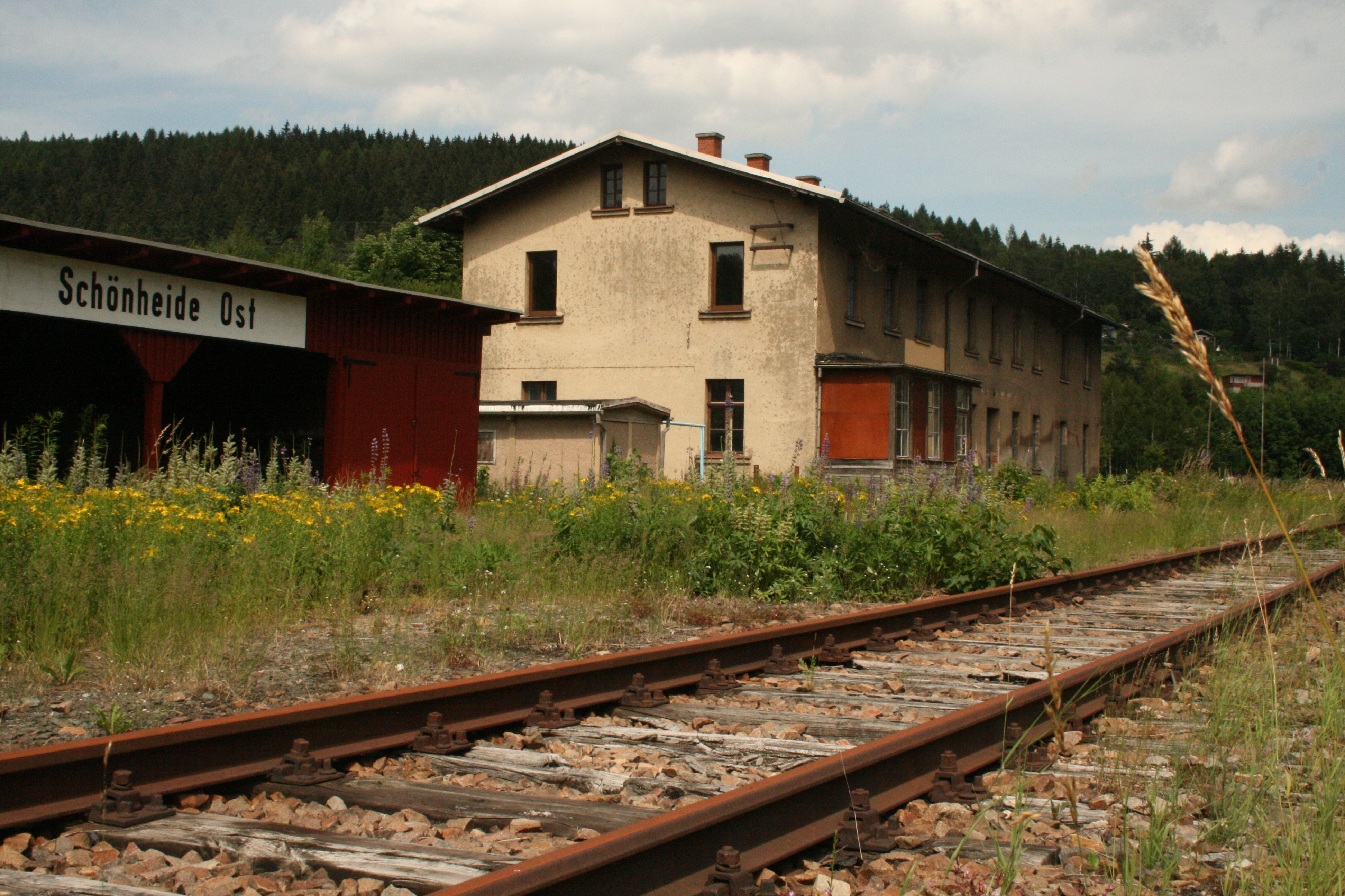 Schönheide - Ore Mountains Former station Schönheide Ost (east)